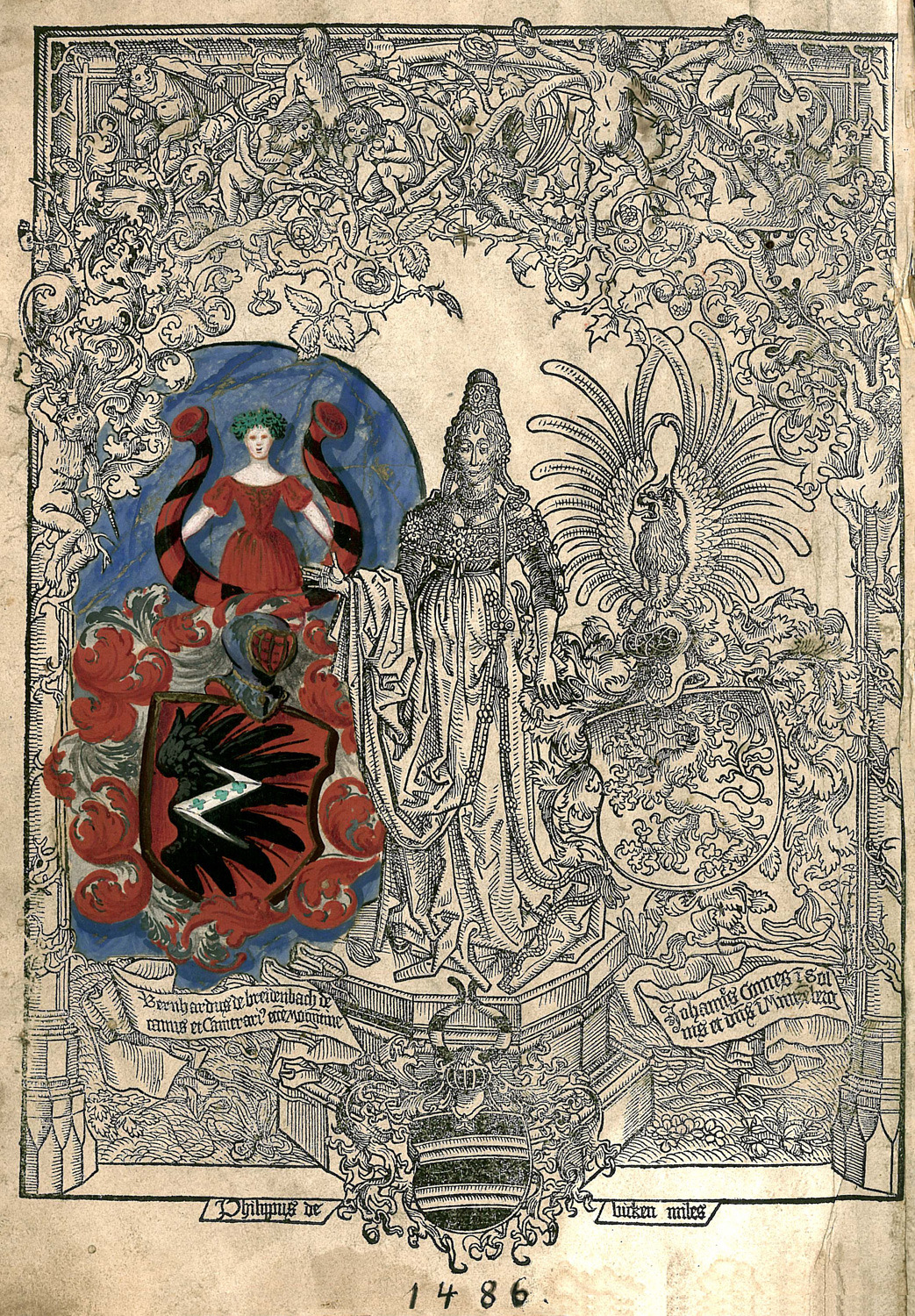 Bernhard von Breydenbach. Peregrinationes in Terram Sanctam, Speyer, 1486 (1st ed.) / 1502 (2nd ed.).